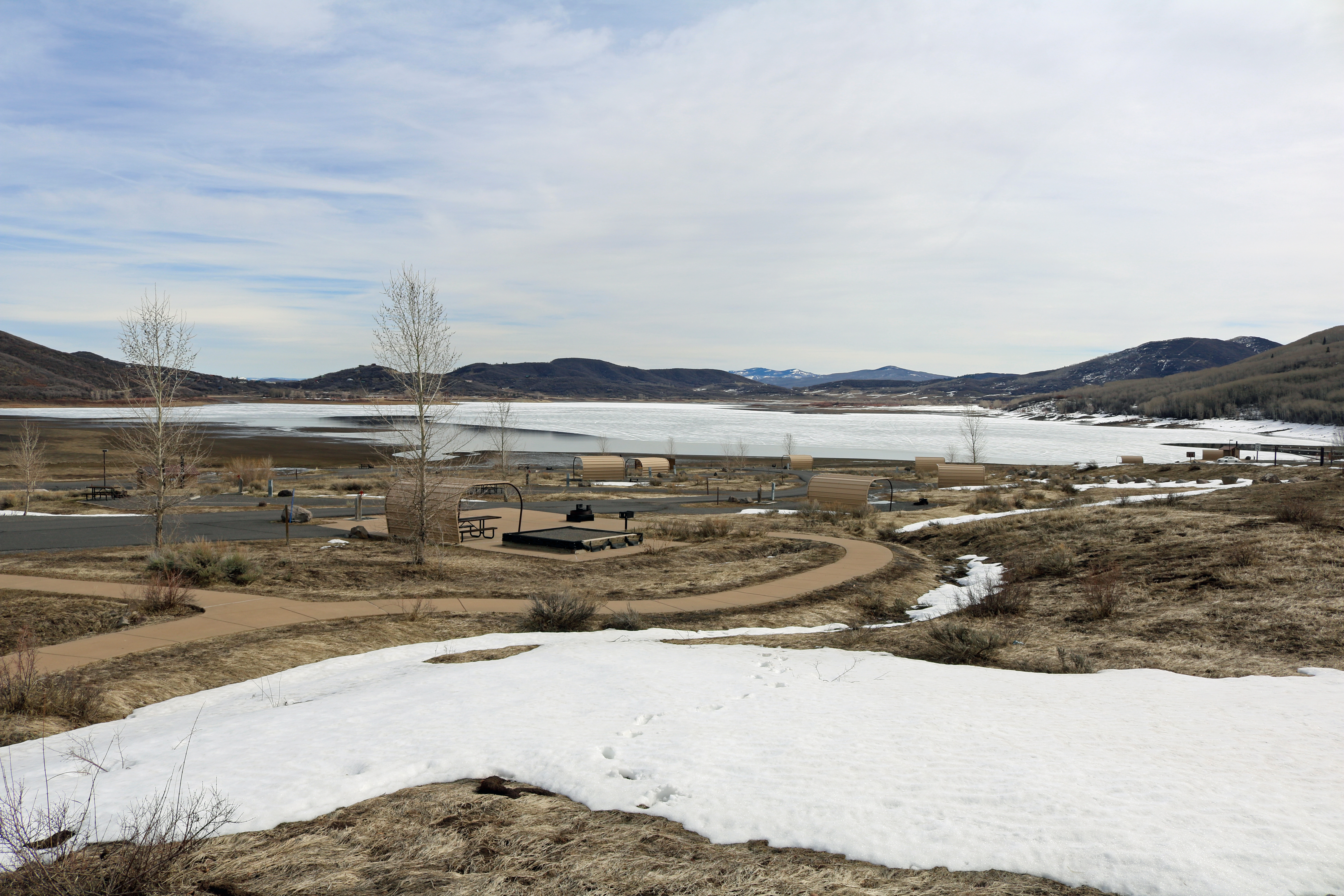 Vega State Park, with a view of Vega Reservoir in early spring, still partially frozen.